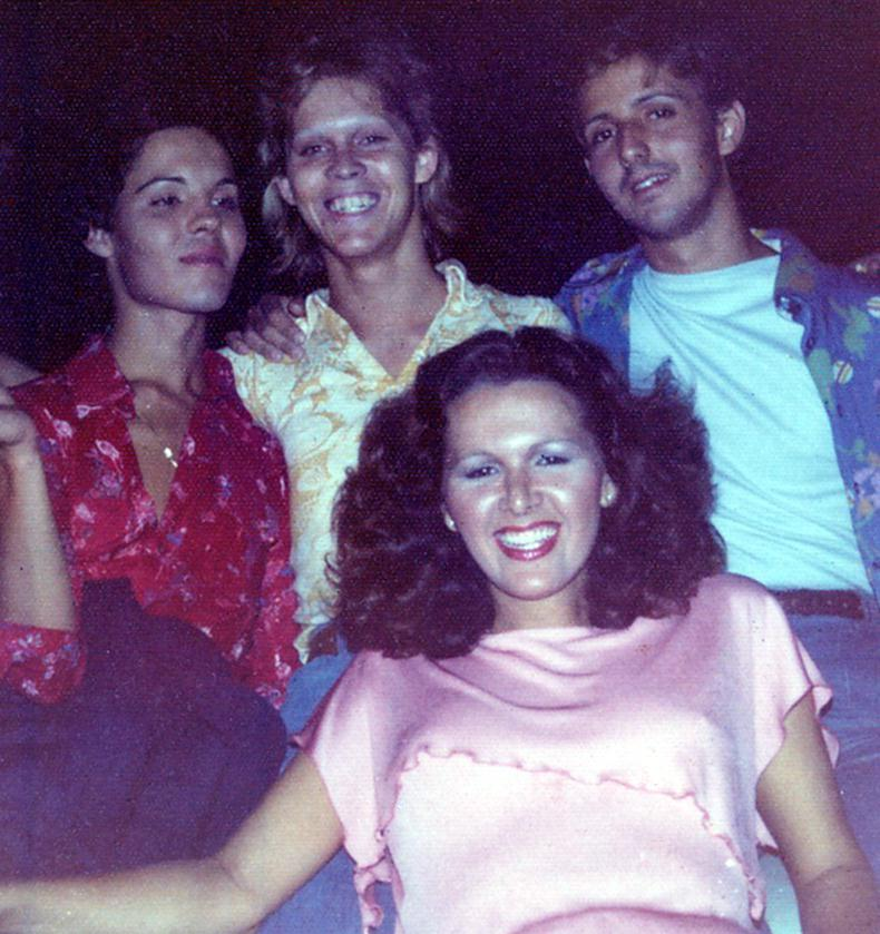 Rena Del Rio, Logan Carter, Peaches Del Monte & Tony Del Valle (friends in the Wild Side Story cast), as released by image creator Lars Jacob ProdPlace: Tampa, Florida